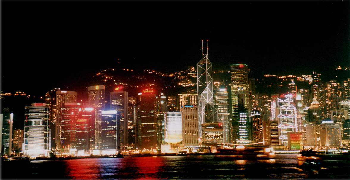 Photo by Dice. on 2004.08.